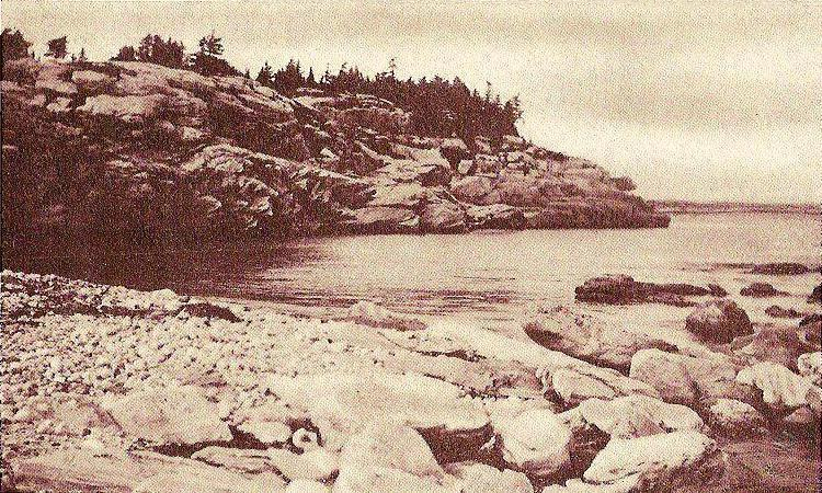 East Shore of Ragged Island, Harpswell, Maine. Ragged Island was the summer home of poet Edna St. Vincent Millay.